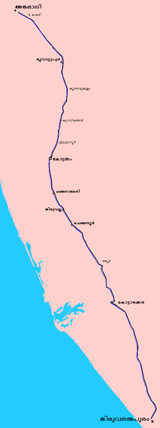 M c road